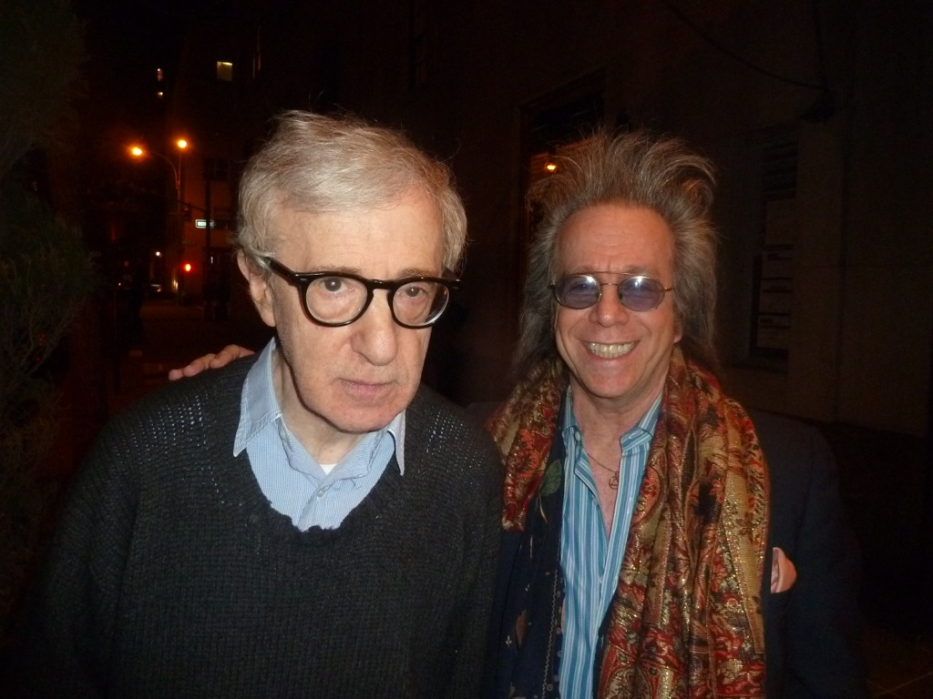 Jeff Gurian and Woody Allen photograph